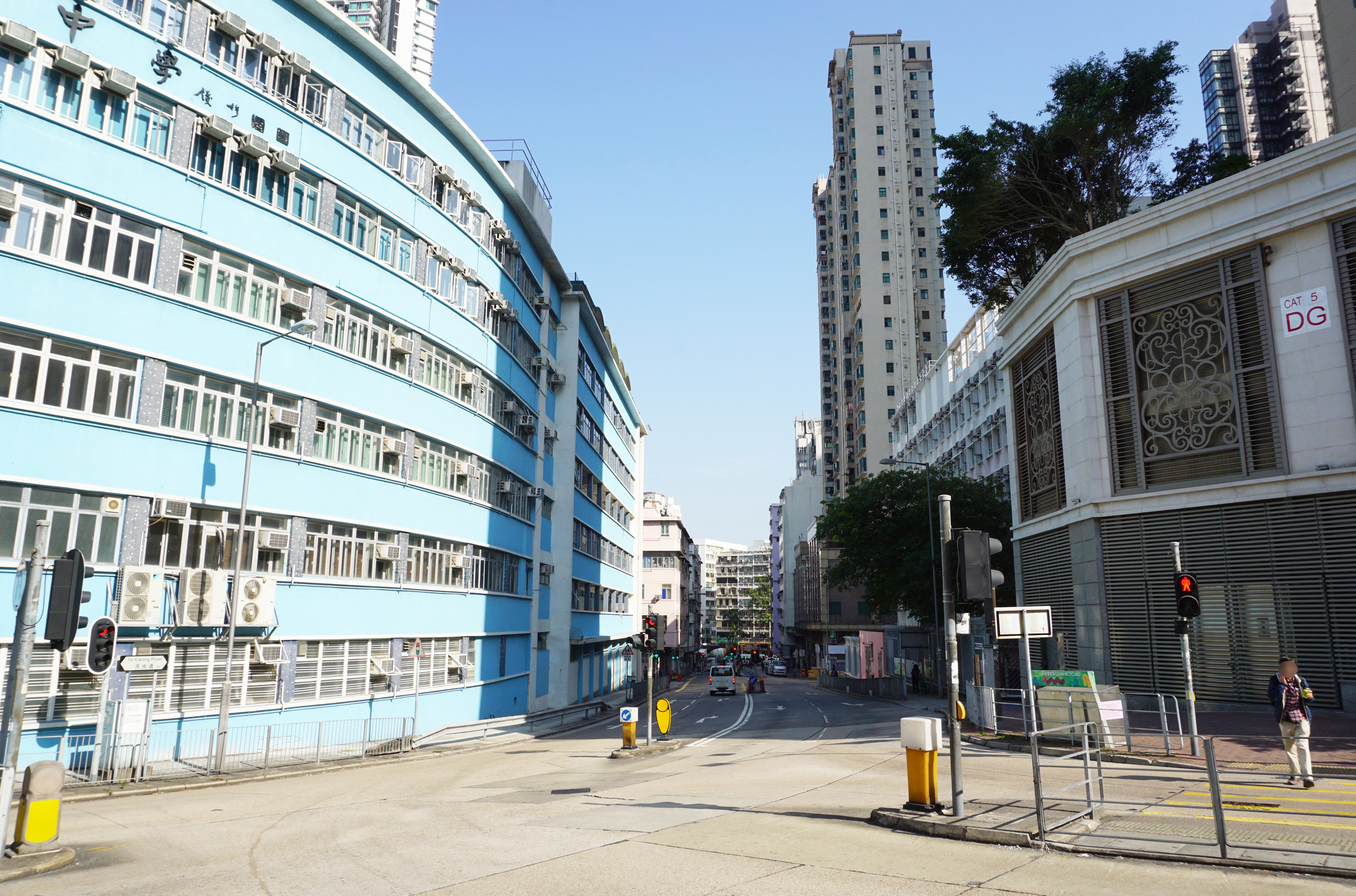 Tin Kwong Road in Ma Tau Wai, Hong Kong.